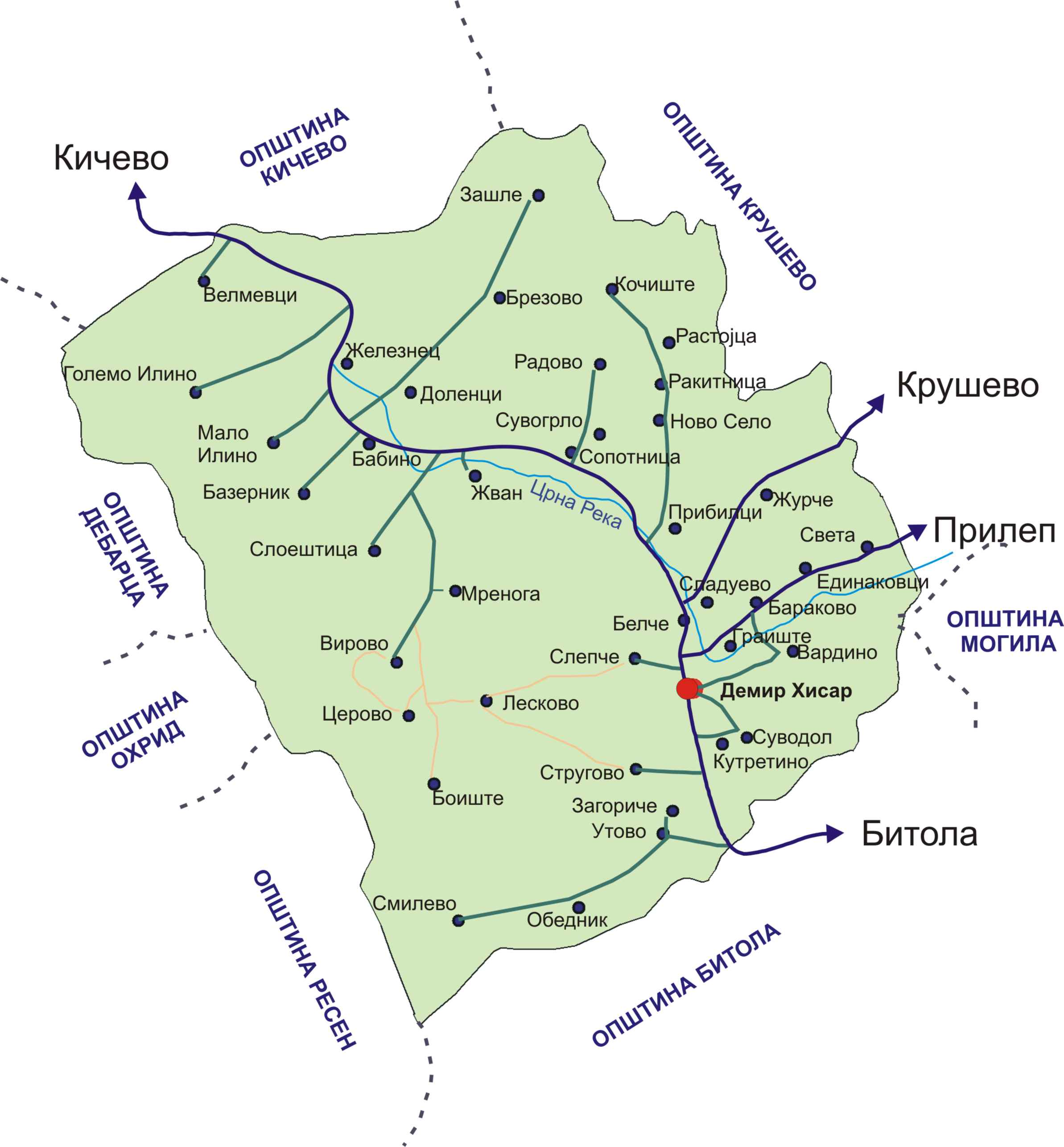 Мапа